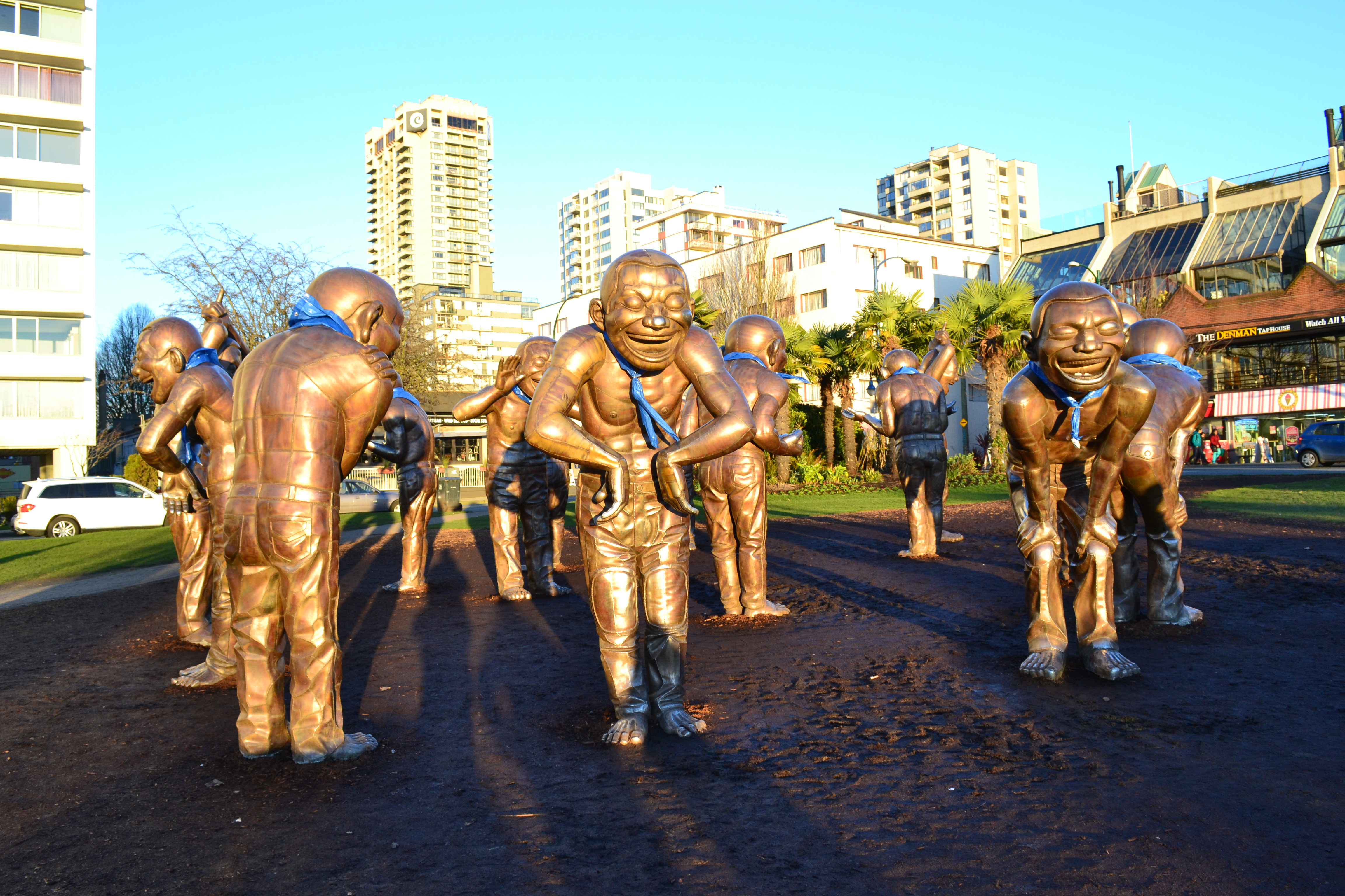 Statues at English Bay.